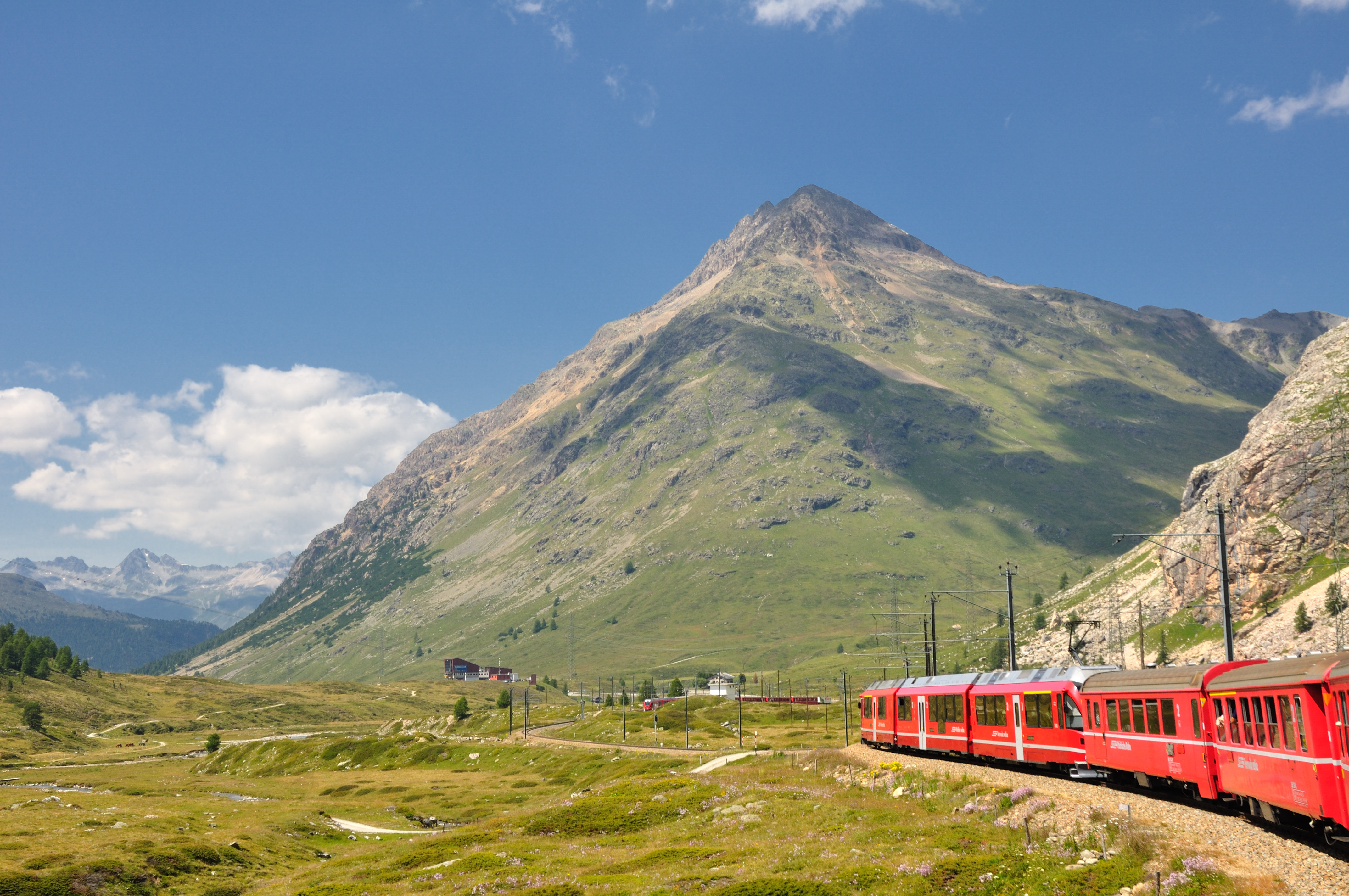 Switzerland, Graubünden, regional train heading down Bernina pass on the North side